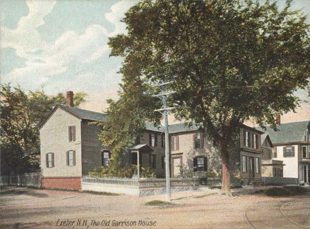 The Gilman Garrison House, Exeter, NH; from a 1906 postcard. It was built in 1709.